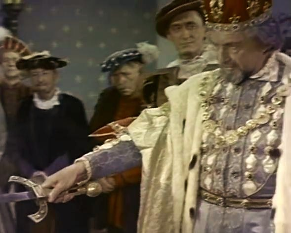 Dayton Lummis (as King Mark) in Jack the Giant Killer - trailer (cropped screenshot)